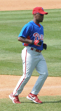 J-Roll before the March 10, 2007 split-squad game against the Devil Rays.